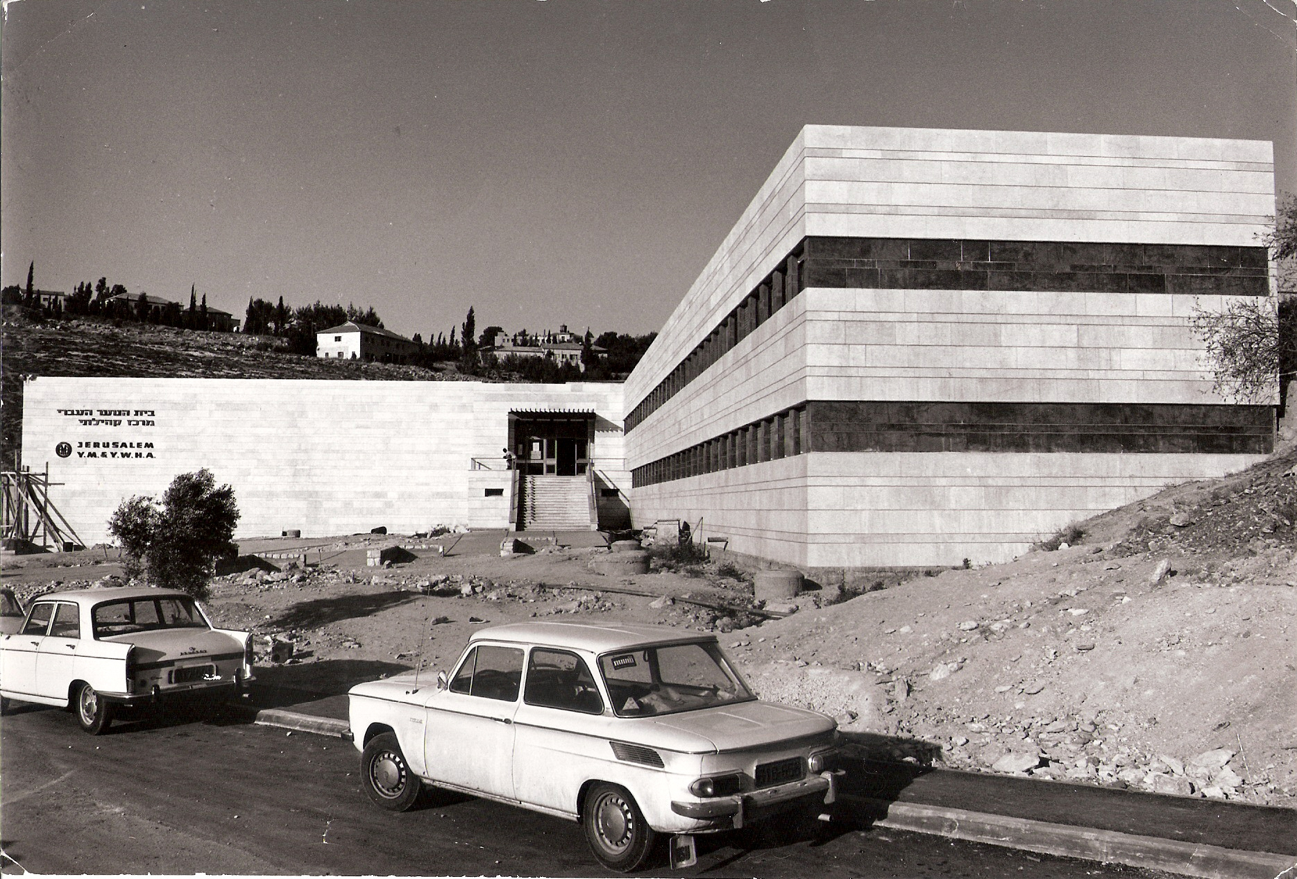 Beit Hanoar Ha'Ivri, Jerusalem